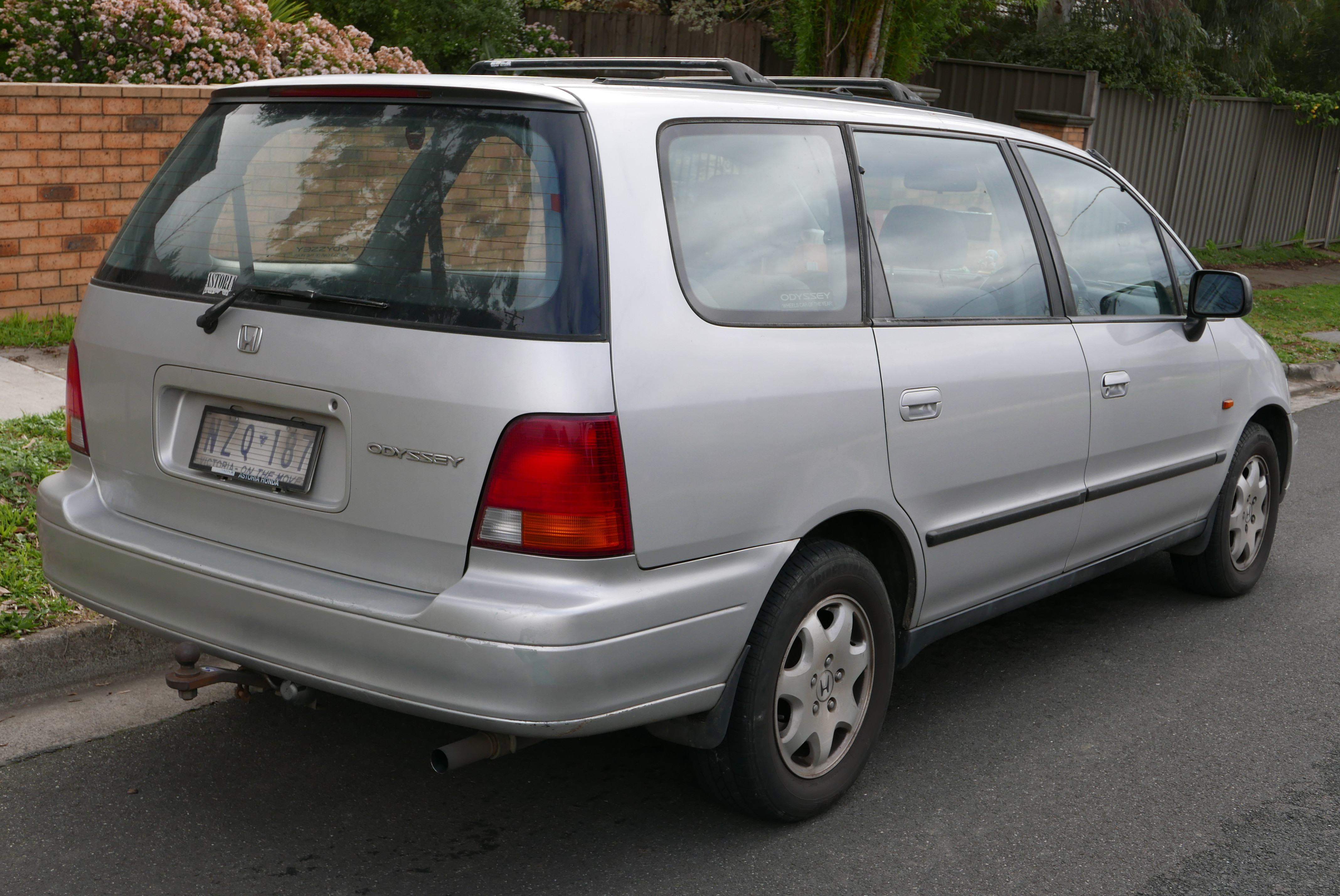 1996 Honda Odyssey van. Photographed in Blackburn North, Victoria, Australia. Vehicle registration enquiry results Jurisdiction Victoria Registration NZQ187 Chassis code JHMRA18800C103982 Engine code F22B62800891 Compliance date 1996-09 Year of manufacture 1996